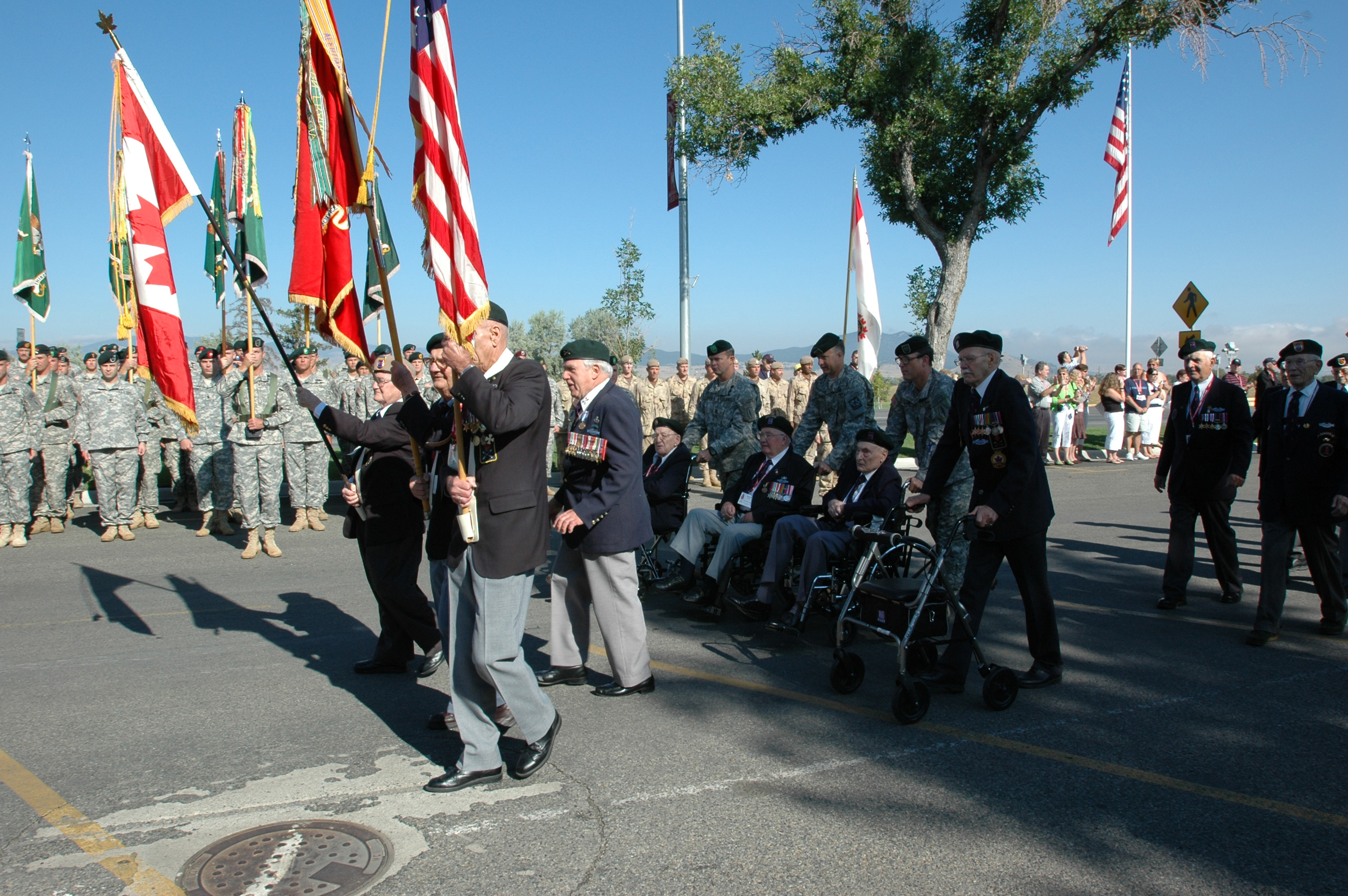 Veterans of the First Special Service Force (The Devil's Brigade) march in formation during a memorial service for their 60th reunion at Helena, Mt. on Aug. 18th, 2006. The First Special Services Force formed at Ft Harrison, Mt. in July of 1942 as a joint force of American and Canadian Soldiers trained to be an elite strike force and was the precursor to today's Special Forces.